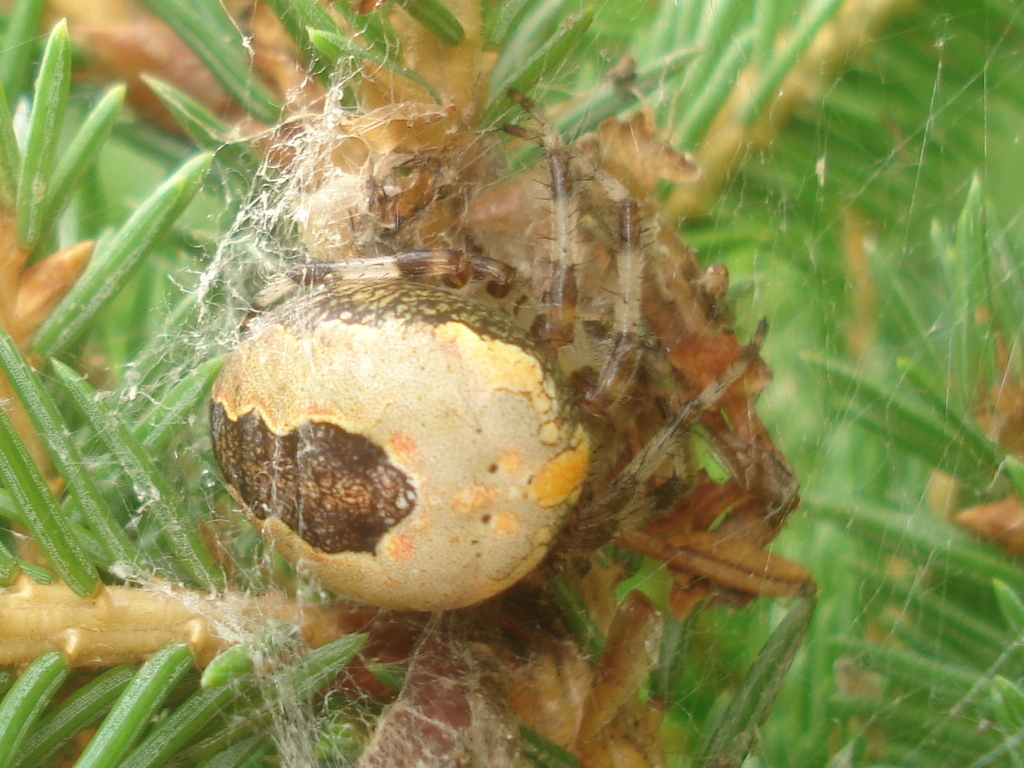 The Marbled Orb-weaver (Araneus marmoreus)